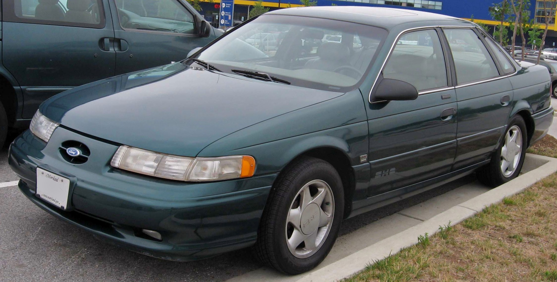 1992 Ford Taurus SHO photographed in USA.